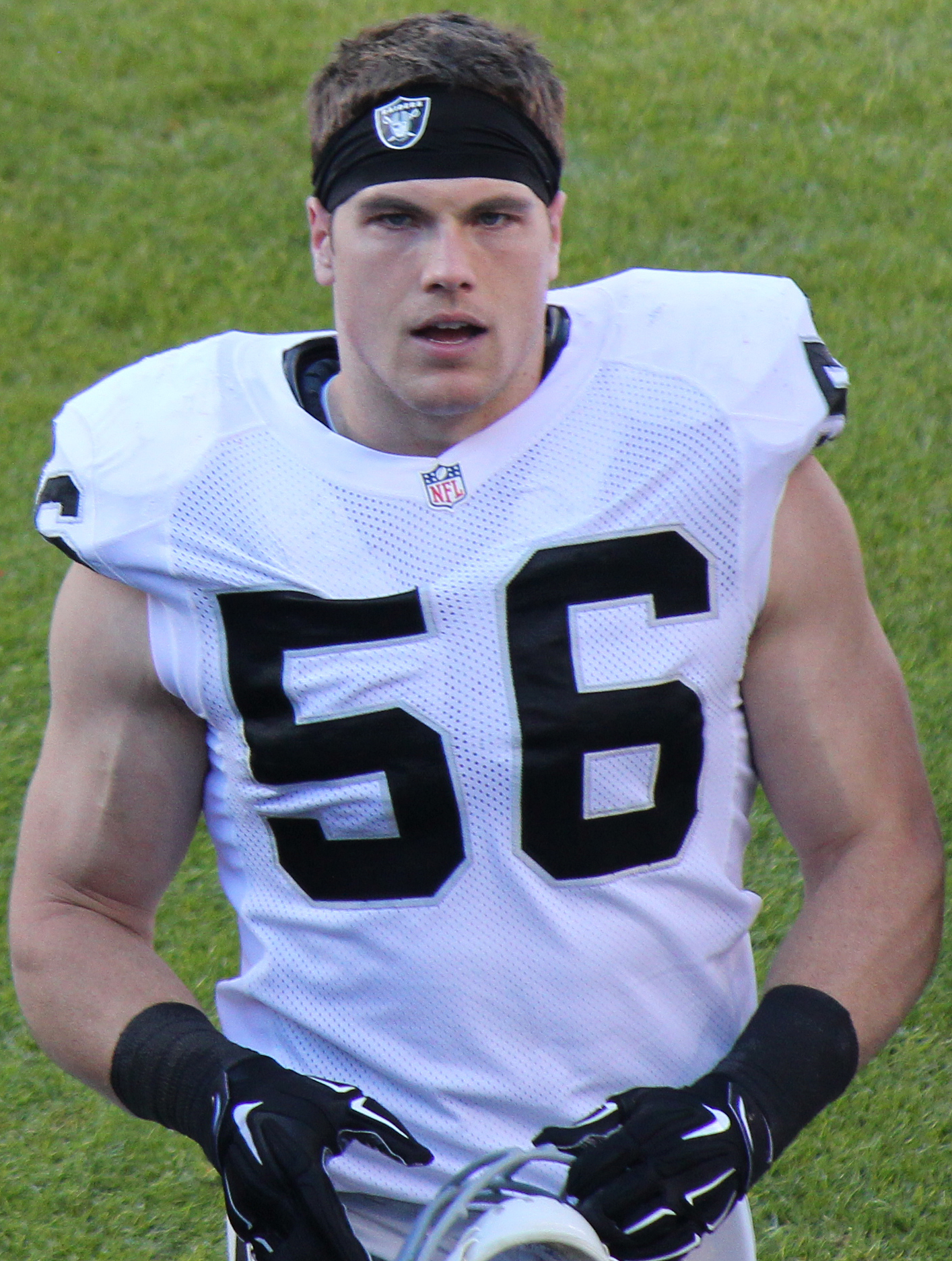 Miles Burris, a player on the National Football League.